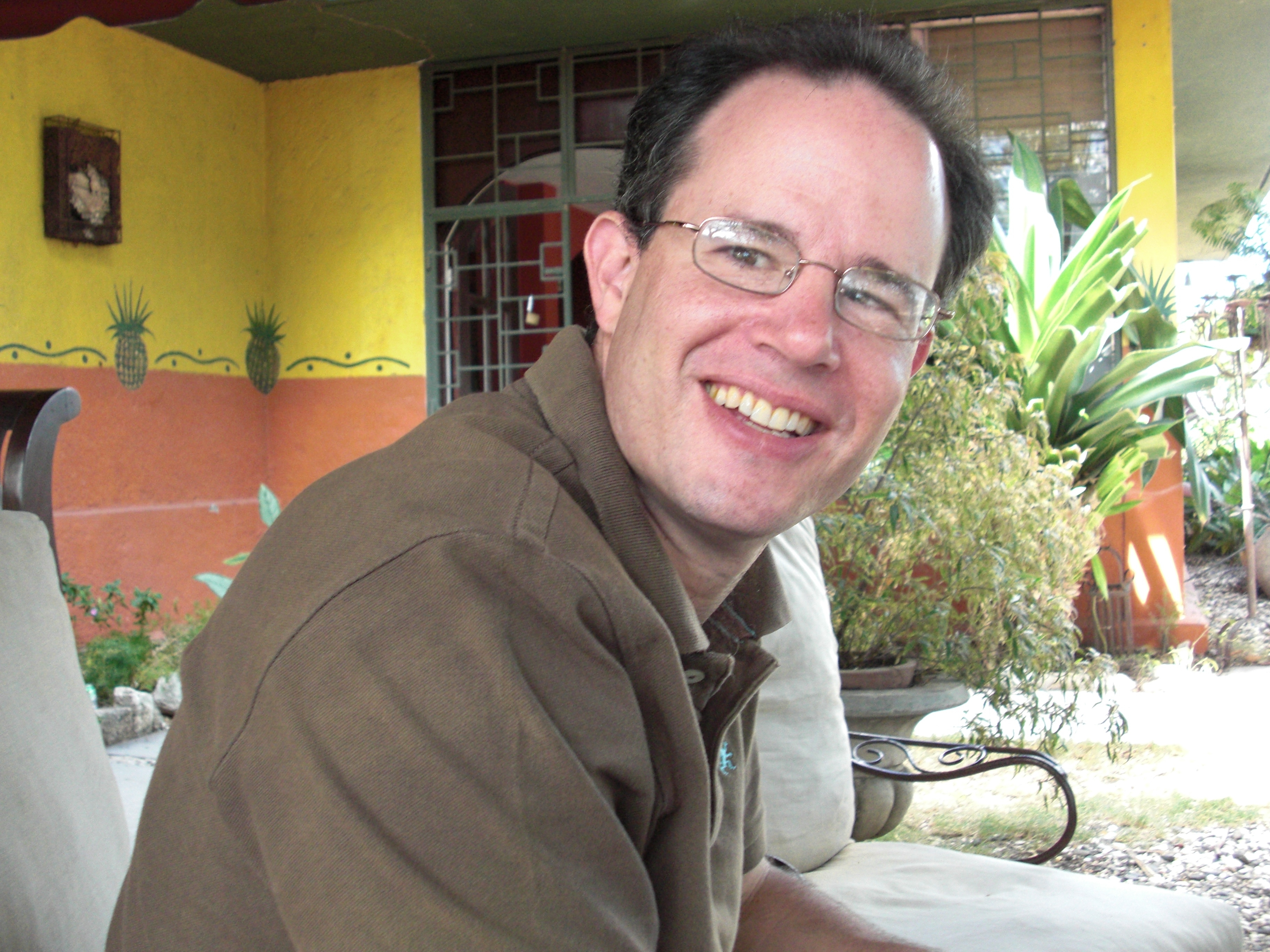 2009 photograph of Andrew Grene in Port-au-Prince, where he was working as Special Assistant to the Head of the United Nations Mission to Haiti. (Photo taken by his twin brother, Gregory.)